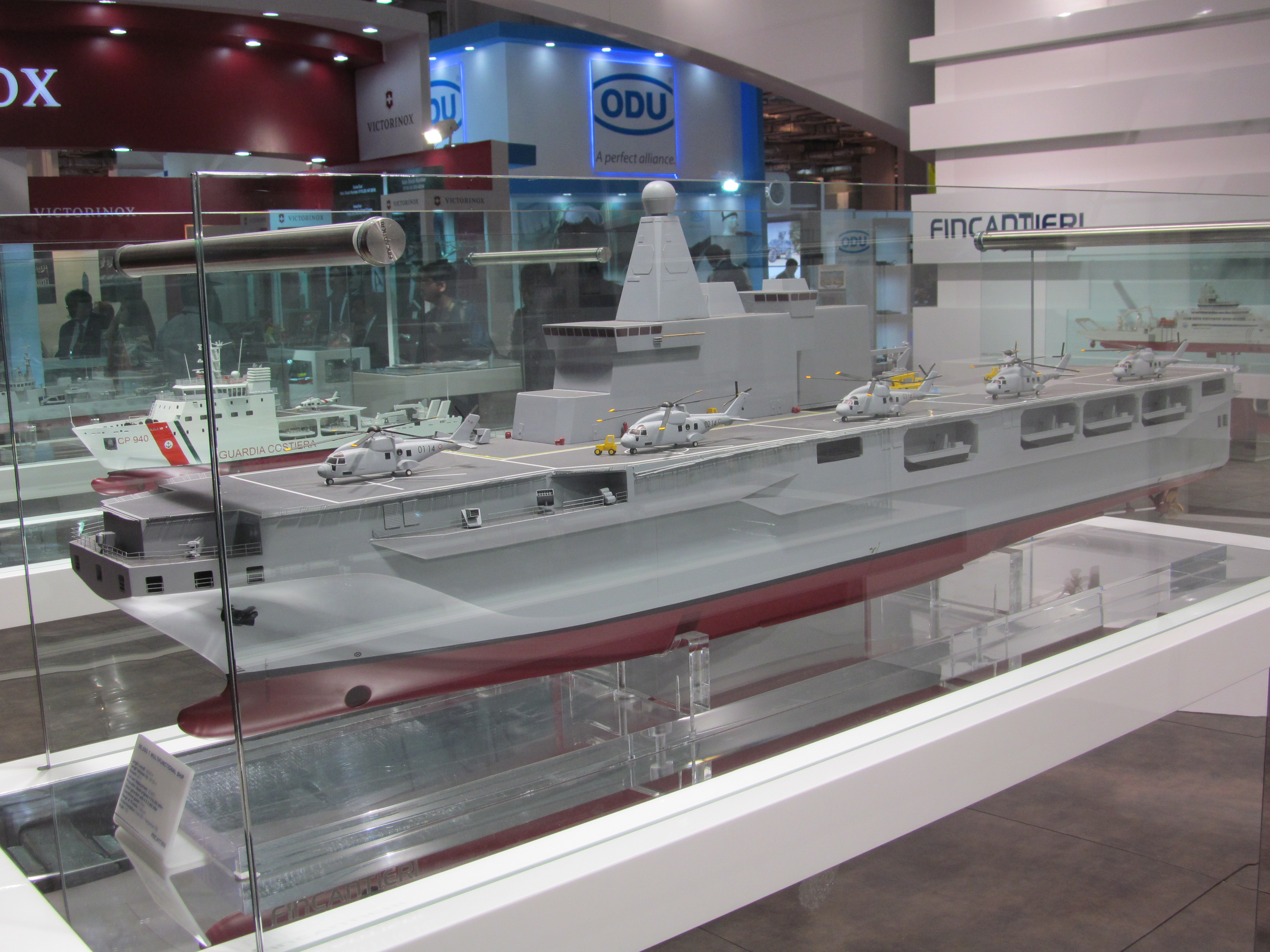 A model of Fincantieri's 20,000 t Multifunctional Ship at their stall at DefExpo 2014, New Delhi.